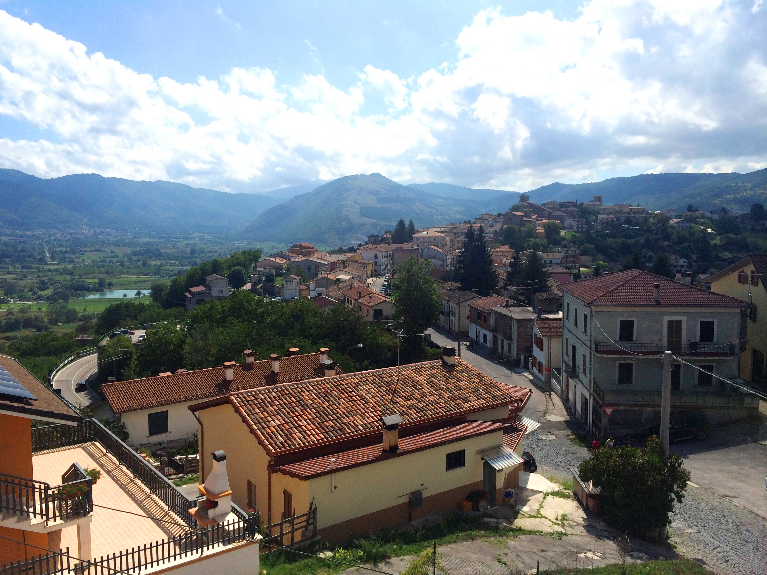 View of Montereale